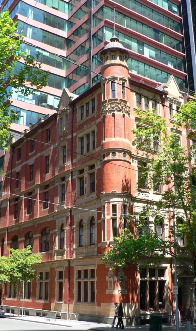 Former Gollin & Company Building. Built 1901 to the design of Charles D'Ebro. On the Victorian Heritage Register. Designed by Bourke Street, Melbourne.